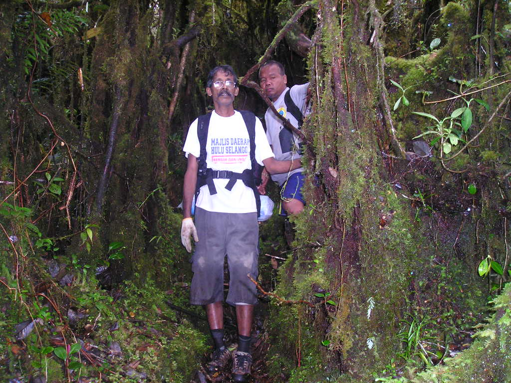 Orang Asli, the local natives, are gentle folk who lead a nomadic lifestyle around Mount Korbu. These people are friendly and know how to respect outsiders. The Orang Asli tribes near Mount Korbu are from the Senoi group. One man Degan became my guide.